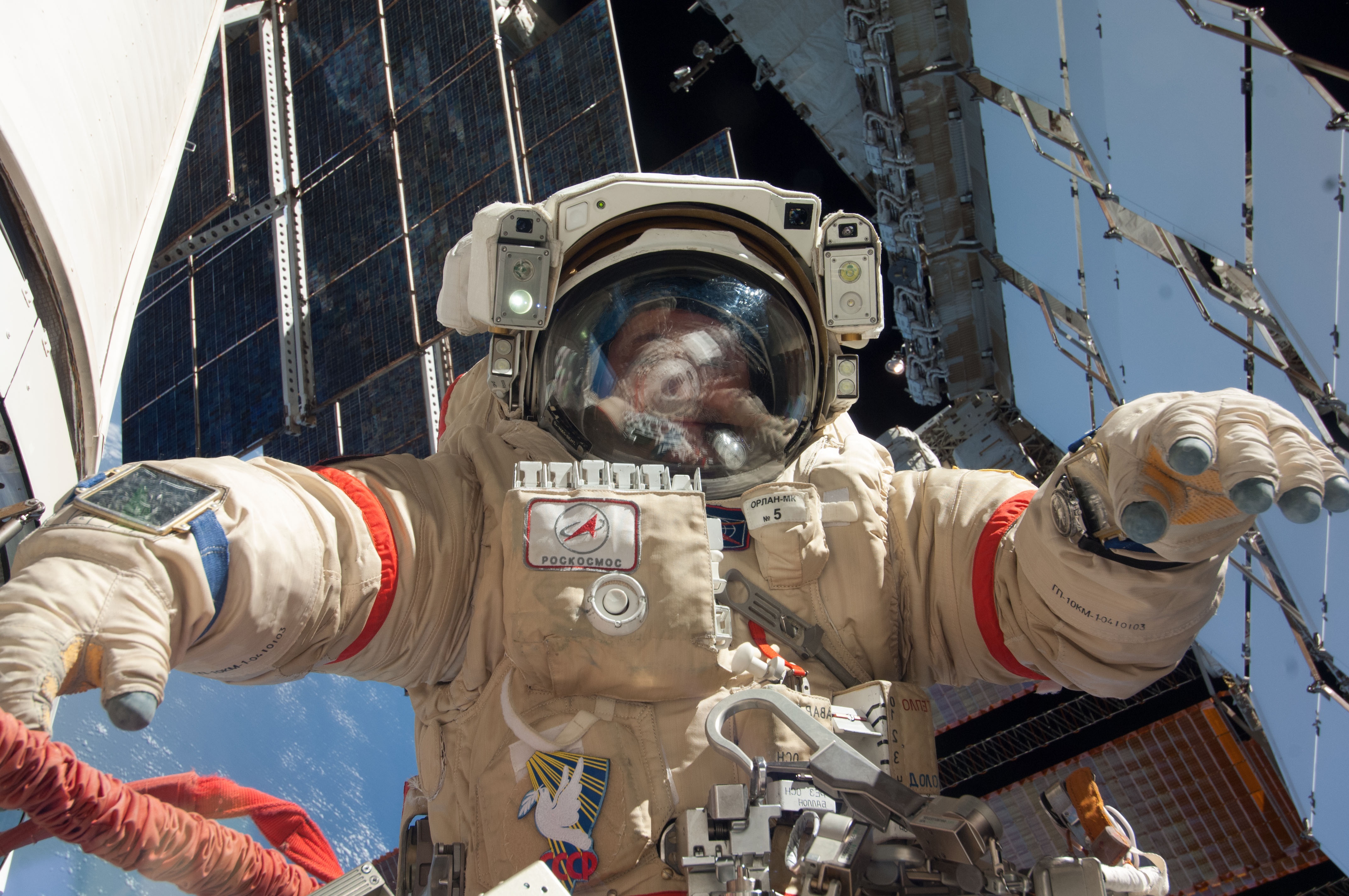 Russian cosmonaut Fyodor Yurchikhin, Expedition 36 flight engineer, participates in a session of extravehicular activity (EVA) as work continues on the International Space Station. During the six-hour, 34-minute spacewalk, Yurchikhin and Russian cosmonaut Alexander Misurkin (out of frame), Expedition 36 flight engineer, replaced an aging fluid flow control panel on the station's Zarya module as preventative maintenance on the cooling system for the Russian segment of the station. They also installed clamps for future power cables as an early step toward swapping the Pirs airlock with a new multipurpose laboratory module. The Russian Federal Space Agency plans to launch a combination research facility, airlock and docking port late this year on a Proton rocket. Yurchikhin and Misurkin also retrieved two science experiments and installed a new one.